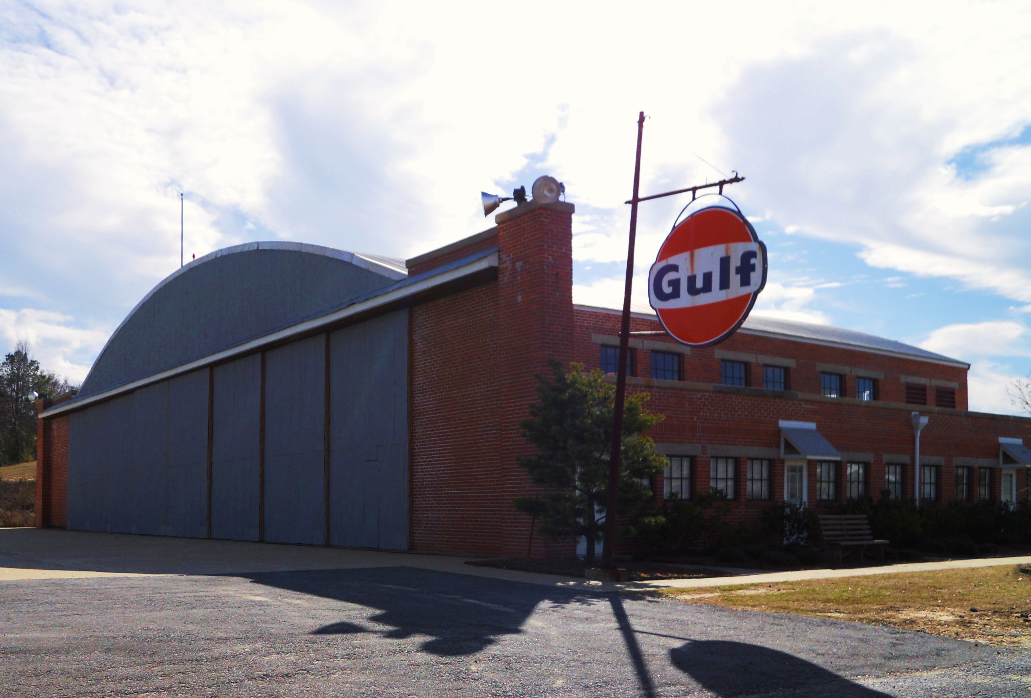 This is a photograph of the Hangar 1 Museum located at Moton Airfield at the Tuskegee Airmen National Historic Site in Tuskegee Alabama.